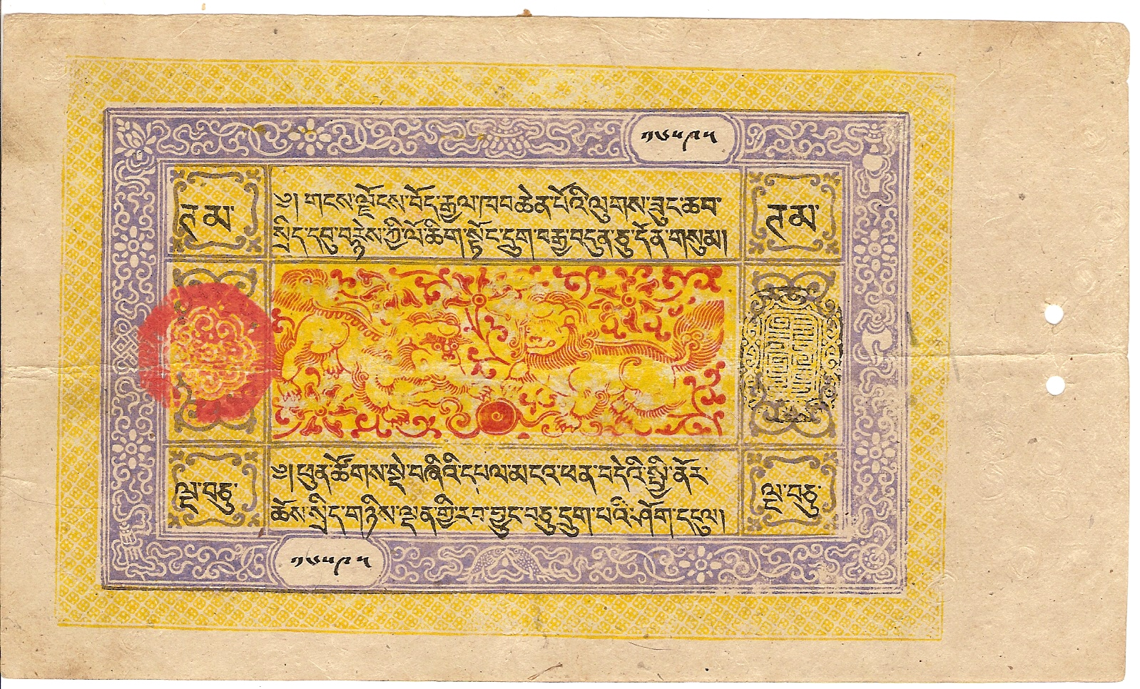 Tibetan 50 tam banknote, dated T.E. 1673 (= AD 1927) face